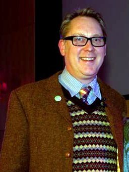 crop of Vic Reeves from photo with a University of Salford student who won the BBC Partnership Award for Writing at the Connect & Create Conference in Middlesbrough. Levels adjusted.